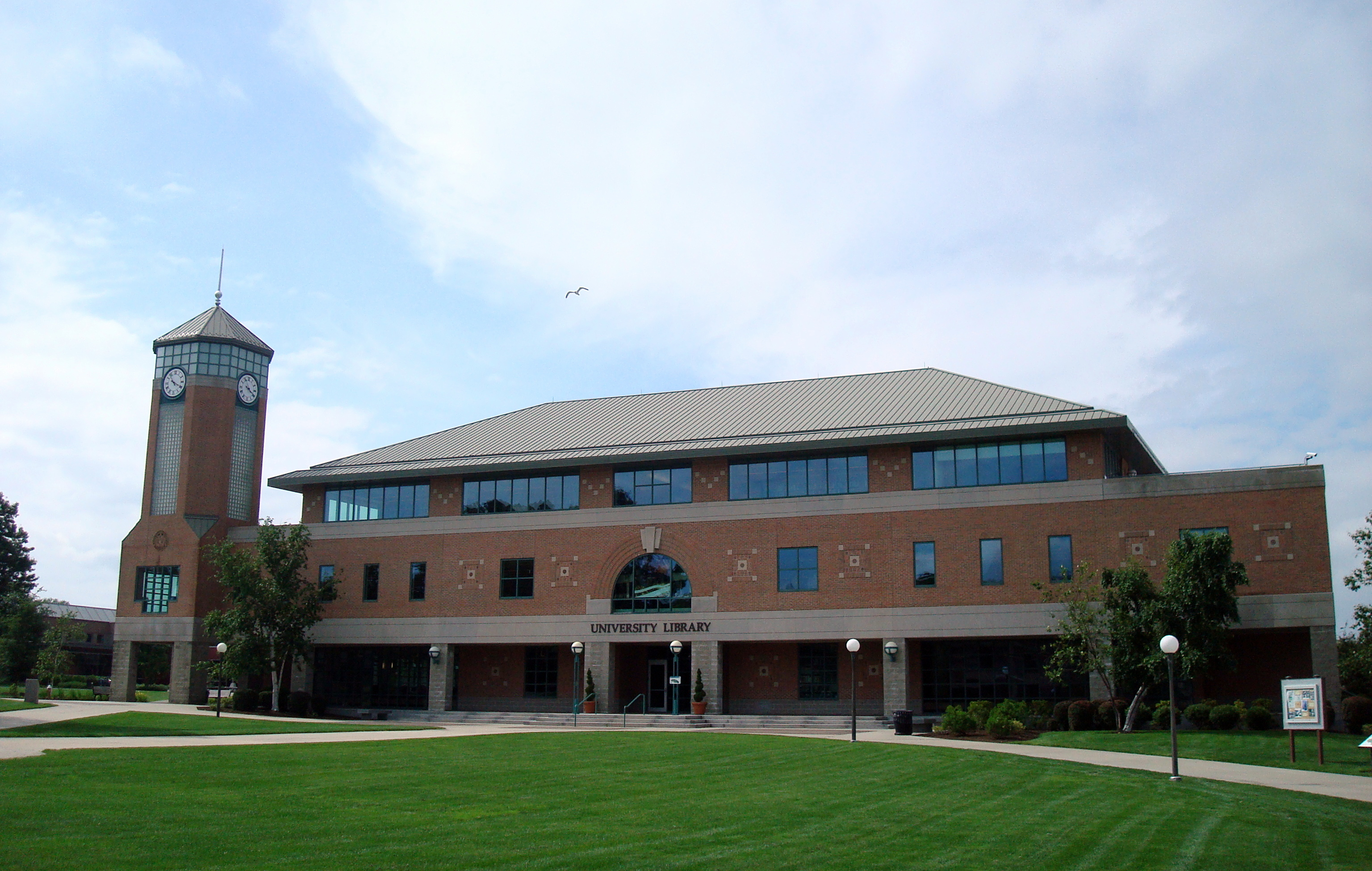 University Library at Roger Williams University